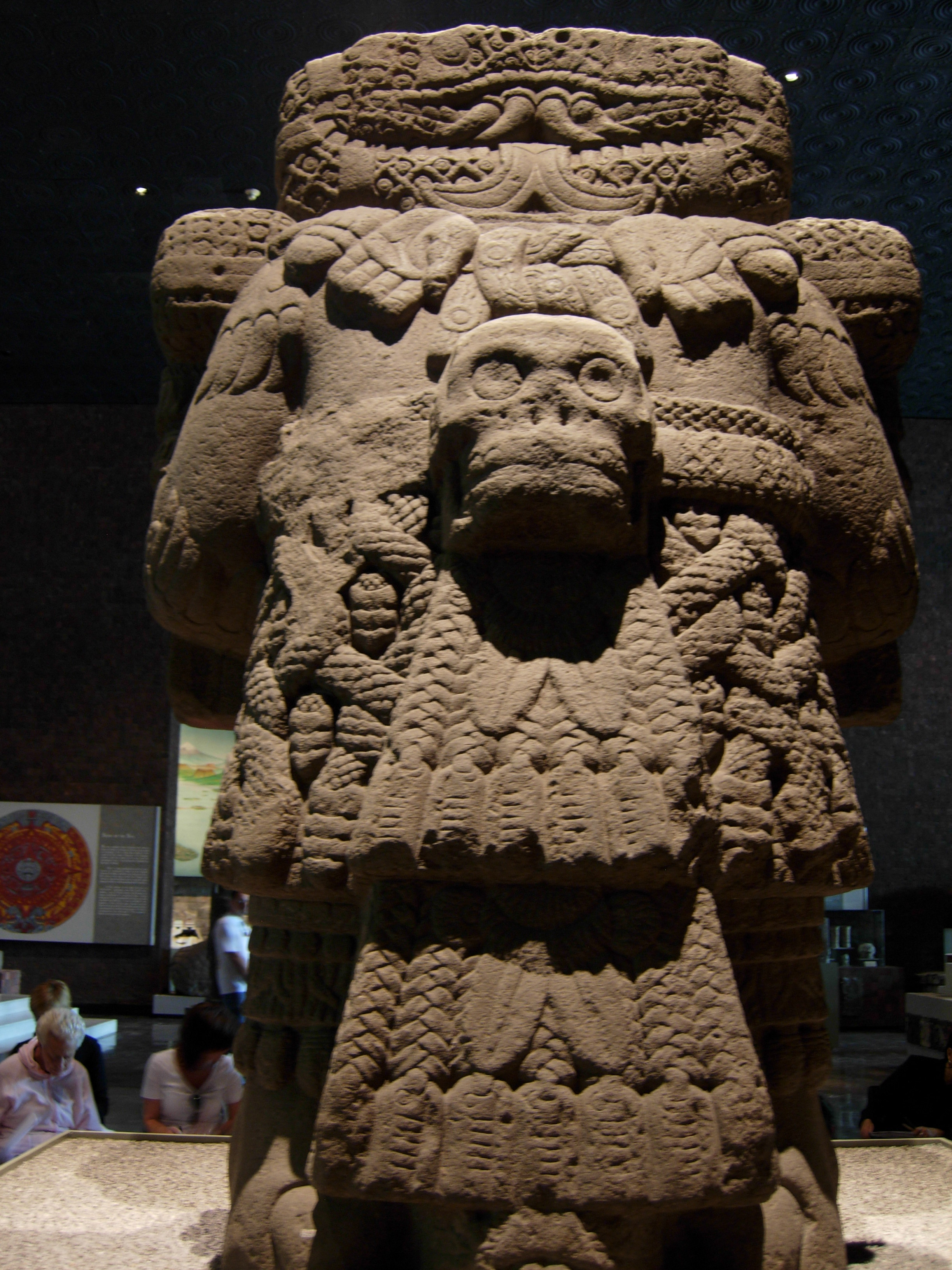 Staue of Coatlicue from the back